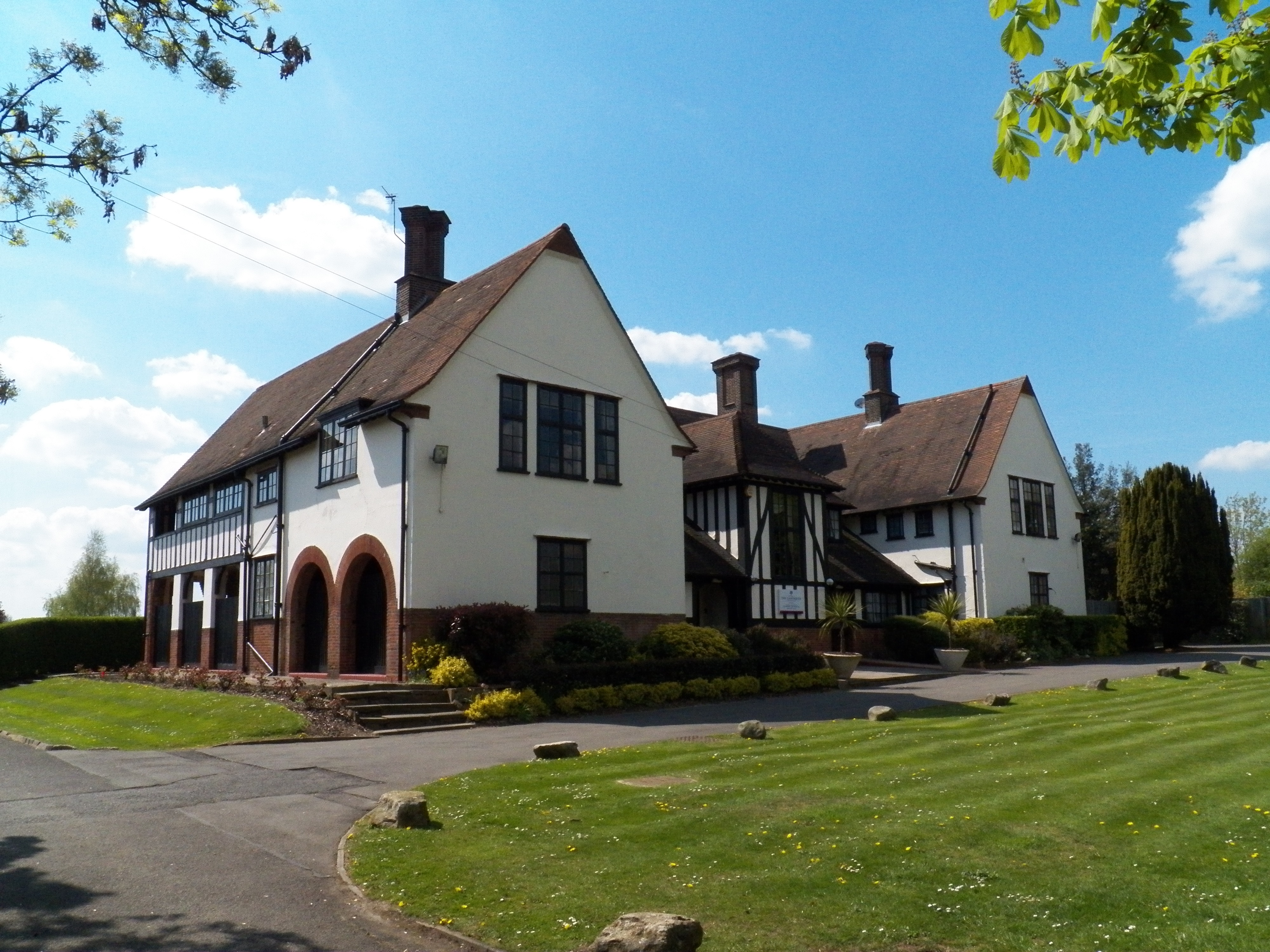 Front of the Cavendish Pavilion.